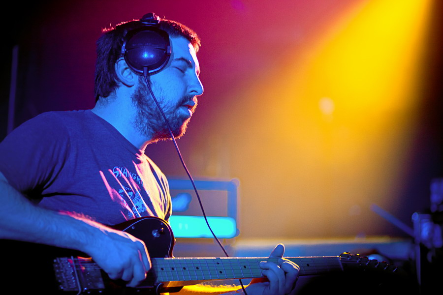 Jeremy Galindo from This Will Destroy You Concert in Saint Petersburg in the Arctica club.